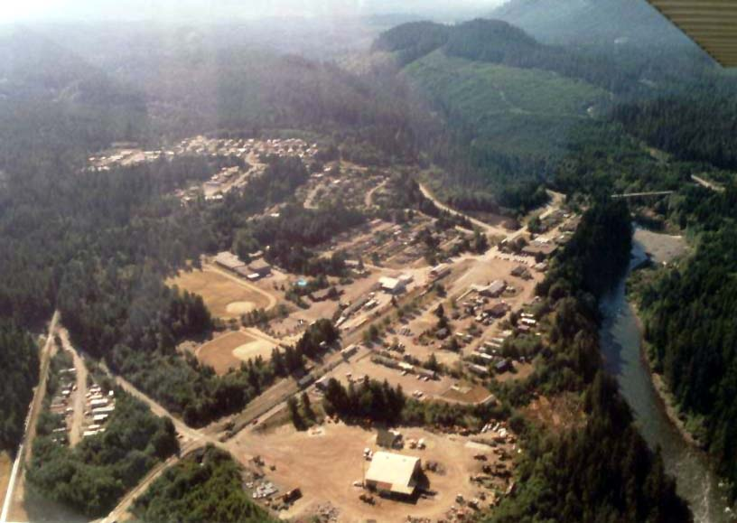 Thanks to the many people who contributed photos for the Woss Heritage project: Paul Hawryluk; Canfor; Ulla Lutz; Rona Doucette; Kim Miller; Phil Firestone; Sheryl Hopf; Susan Rushton; Bev Webber; Debbie Walker; Joanne Fischer; Bob Sinclair; Alex Lepore; Elizabeth Farrant; Annie Glover